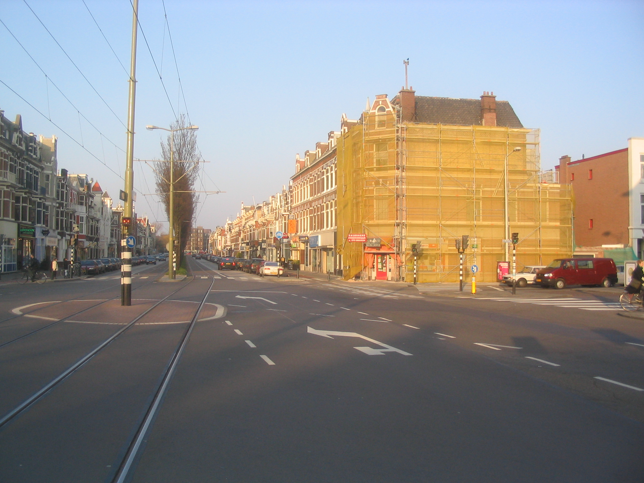 A part of the laan van meerdenvoort, in the south-west of the centre of den haag it crosses the 'beeklaan' at this point the laan van meerdenvoor is the biggest laan of europe as the creator of this image have I released it under the stated licenses